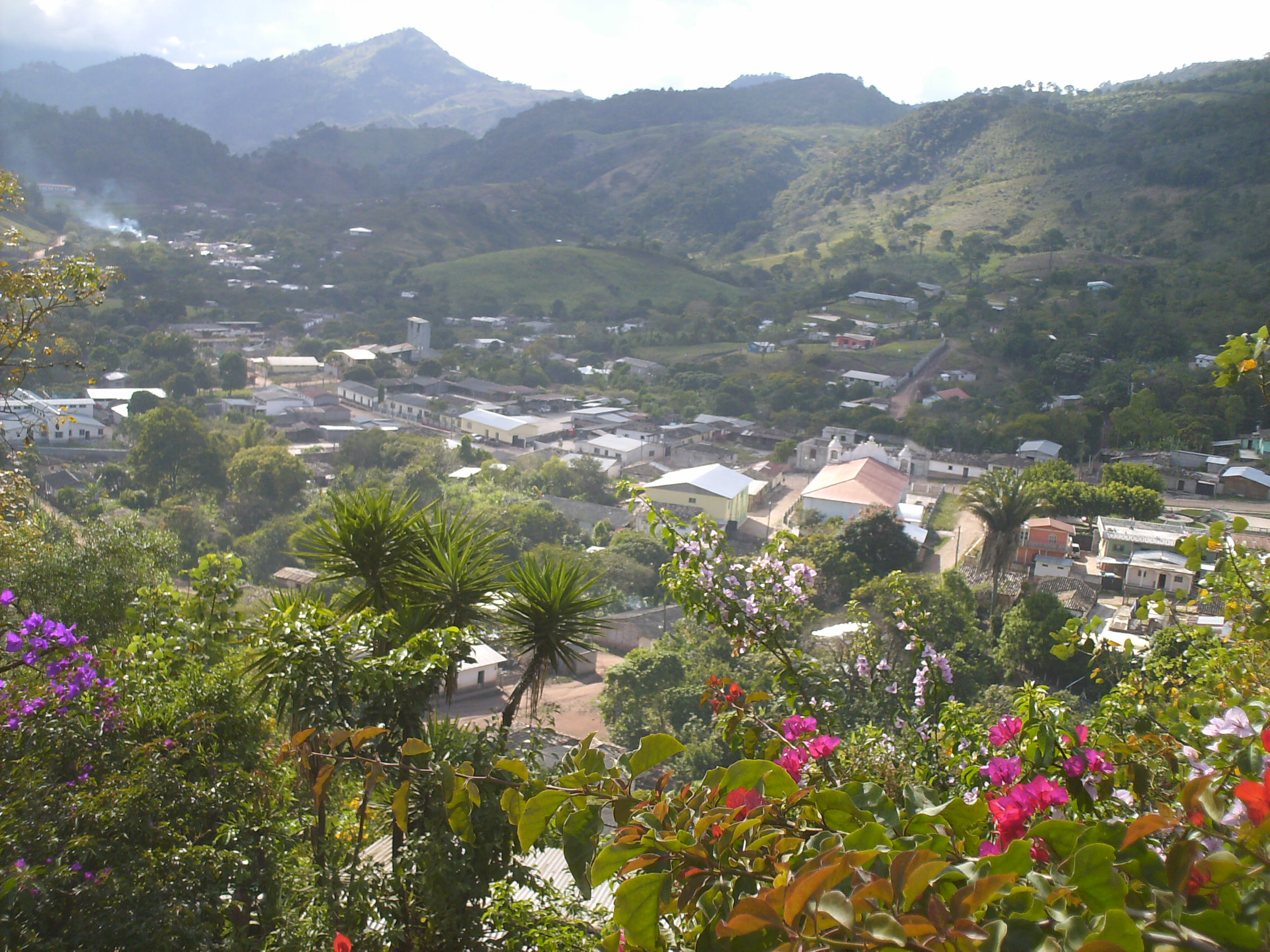 Mountains and La Unión, a municipality in the Honduran department of Lempira.